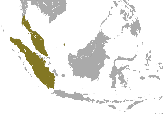 Distribution map of the Greater Slow Loris (Nycticebus coucang coucang) range. A subspecies of the Sunda Loris (Nycticebus coucang) .